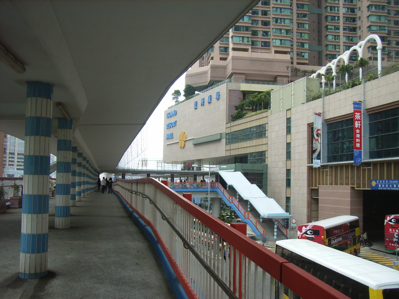 小西灣道 (Siu Sai Wan Road)，是一條zh:香港可以行車的zh:街道，位於zh:香港島東區zh:小西灣，全程是平路。 Siu Sai Wan Road (小西灣道) is a road, located at eastern end of Chai Wan, Eastern District, Hong Kong. There is a stadium called Siu Sai Wan Stadium. Photo Author: User:BLUEAST